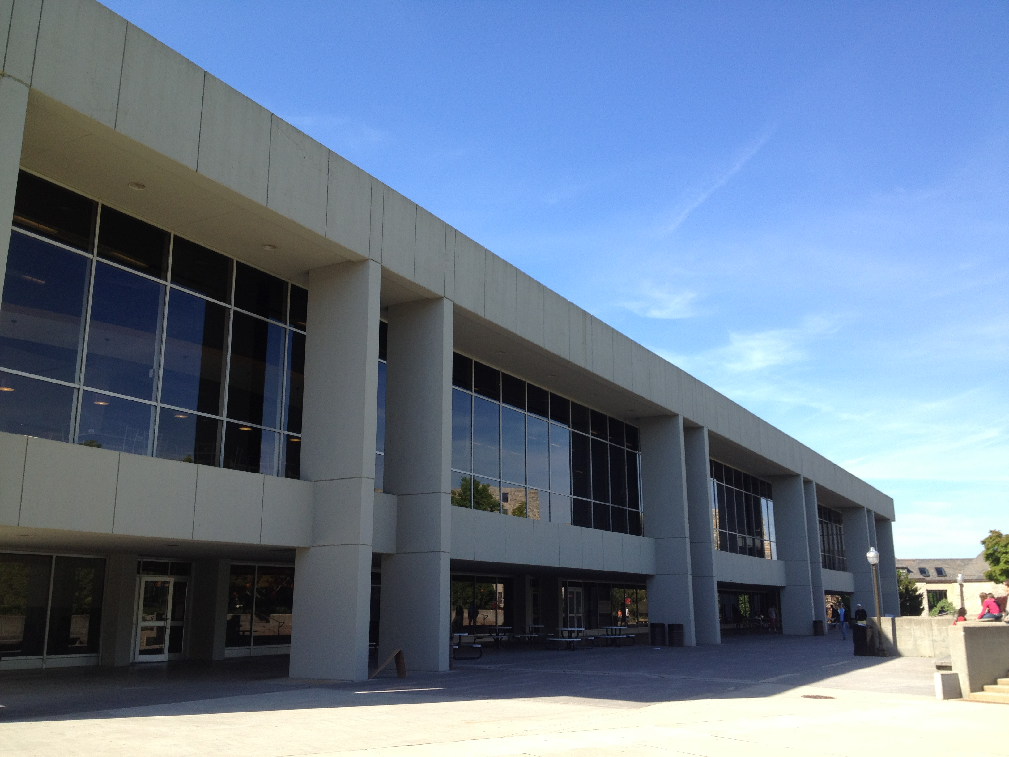 D2, Virginia Tech, Blacksburg, Virginia